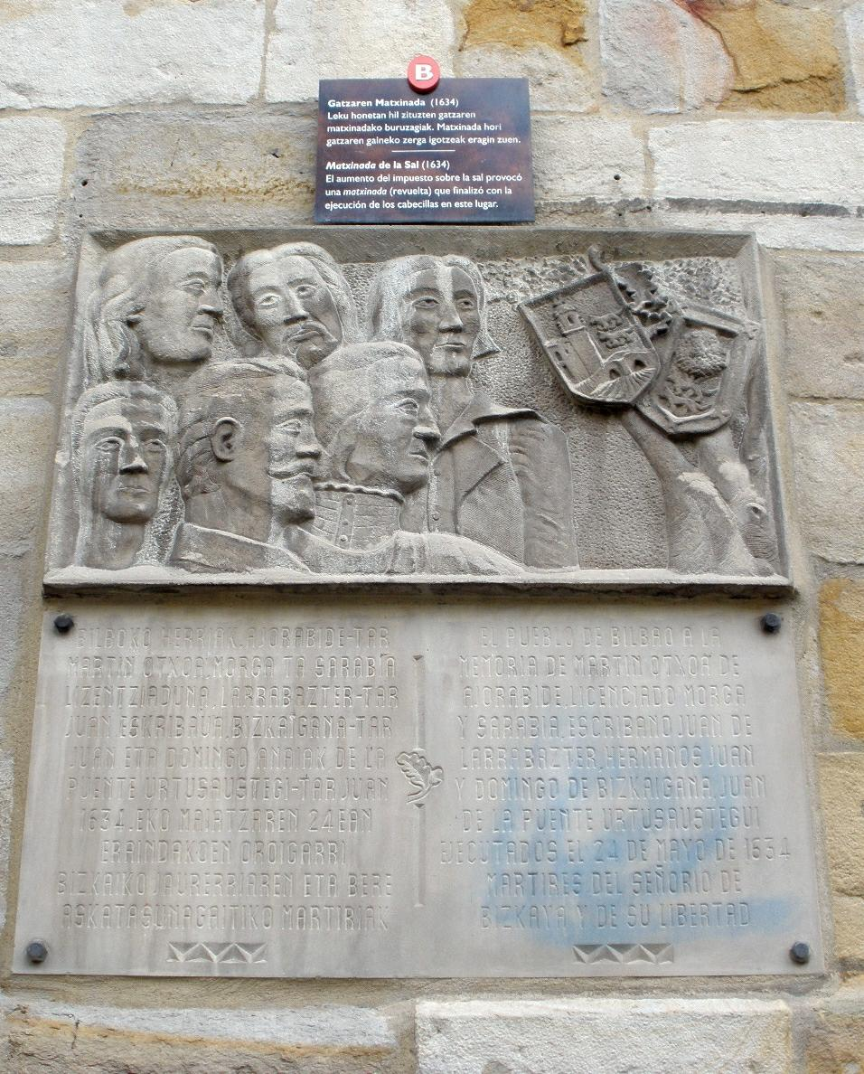 Placa memorial de la Matxinada de la Sal de Bilbao, 1634, en el muro de la iglesia de San Antón